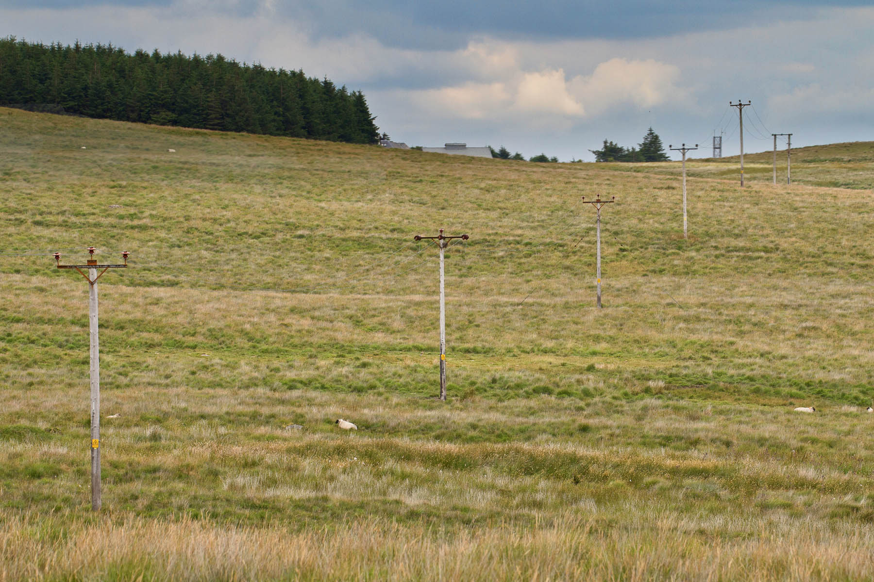 Walkhampton Common pylons before undergrounding